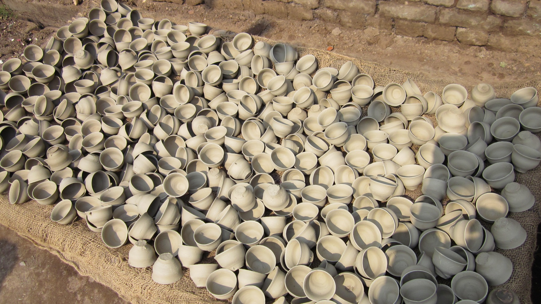 Handmade kulhars made in rural parts of India